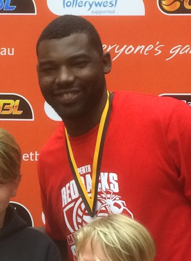 Lee Roberts, following the Perth Redbacks' SBL championship win